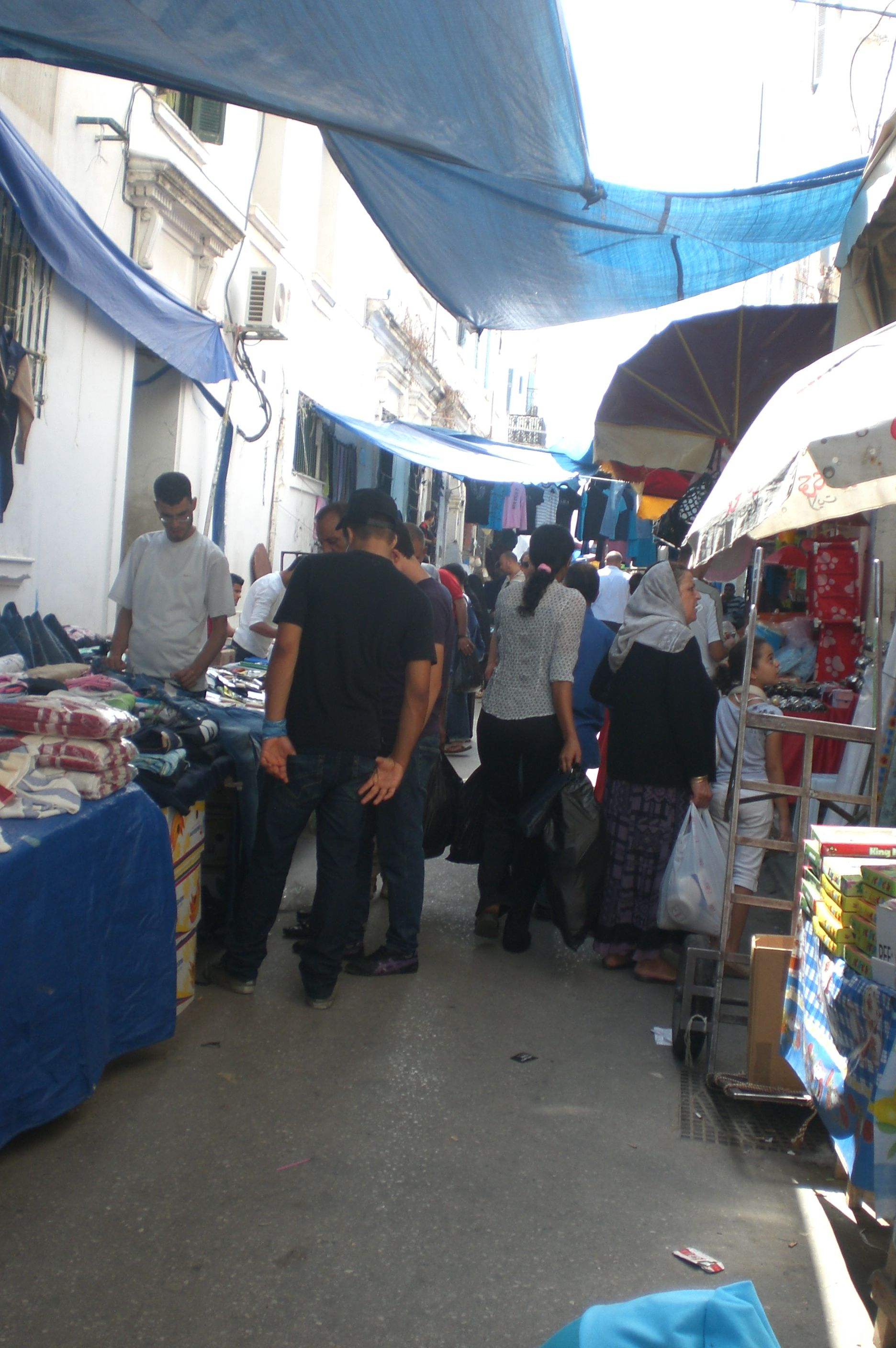 Rue Commission Tunis